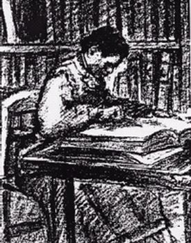 A drawing of Charlotte E. Ray (January 13, 1850 – January 4, 1911), the first African American female lawyer in the United States.